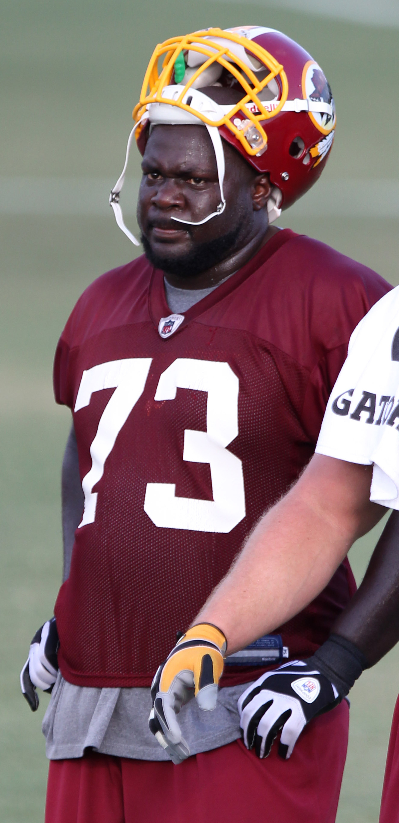 Joe Joseph at Washington Redskins Training Camp, August 4, 2011.